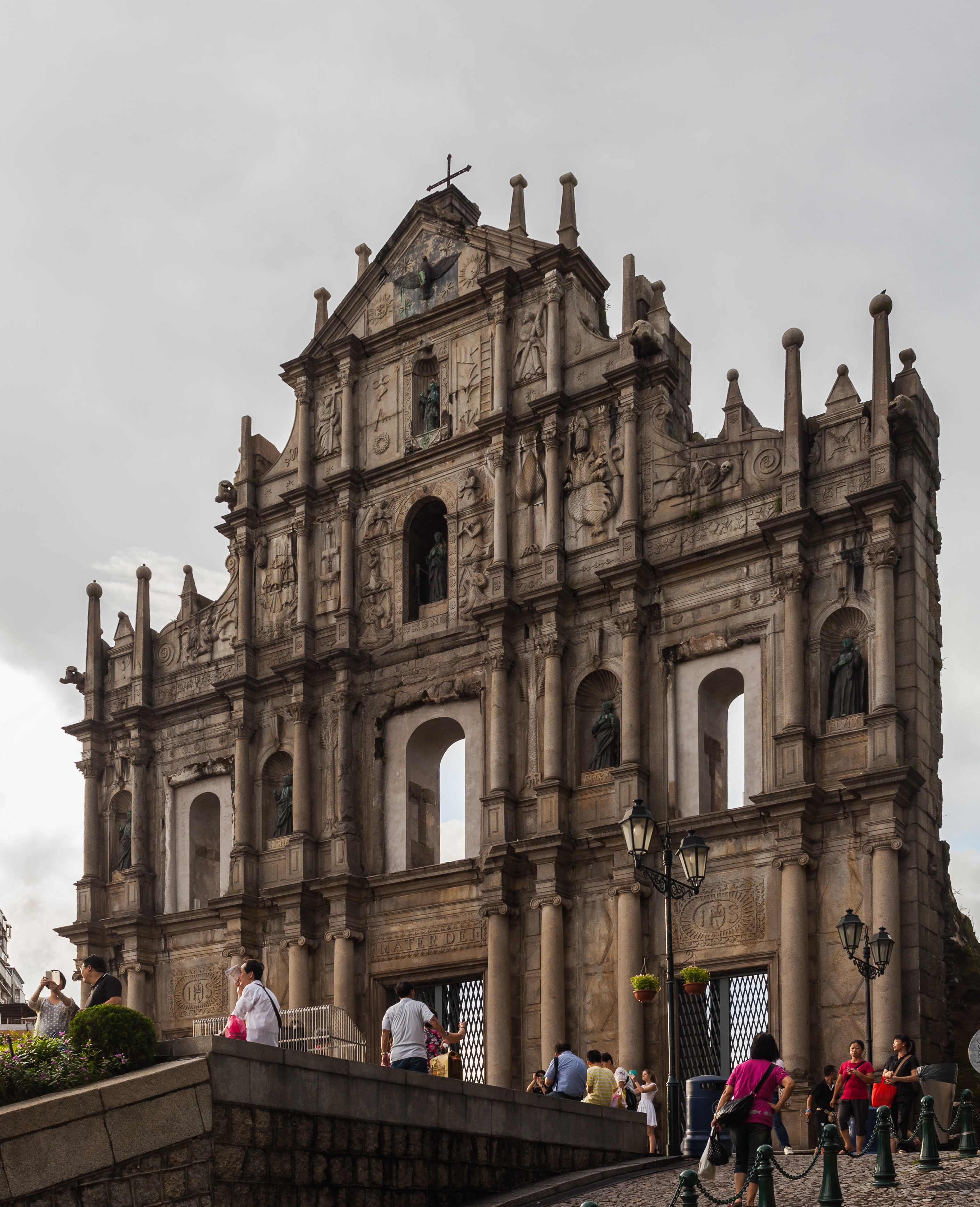 Remains of the Cathedral of Saint Paul, Macau